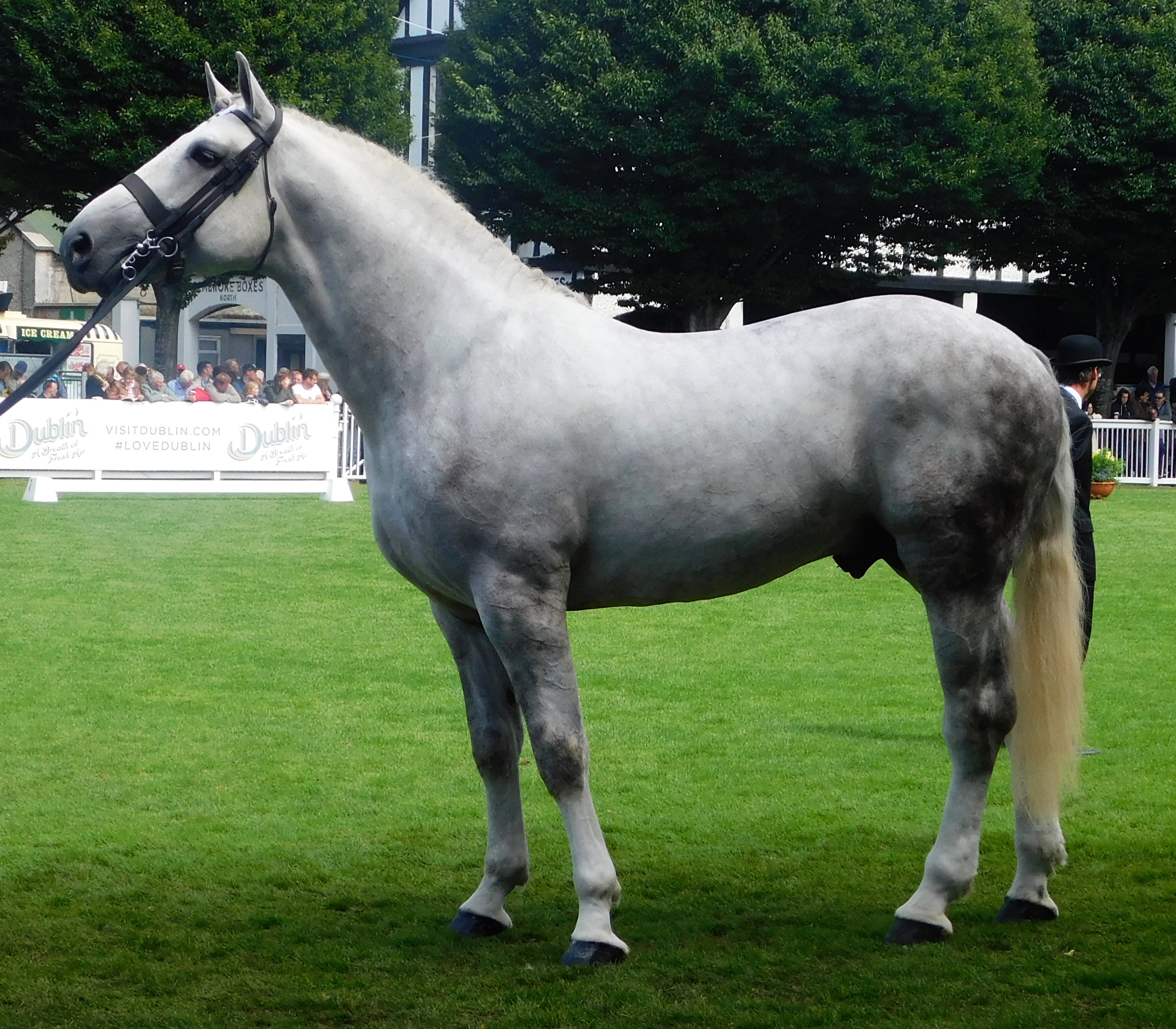 Dublin Horse Show 2017, Class 42 Irish Draught Stallions - Cappa Amadeus [IHR 5619177] (Irish Draught Horse). Sire: Cooloo Crest, Dam: Mountpelier Gentle Diamond, Damsire: Donovan. Crop of DublinHorseShow2017 CappaAmadeus IrishDraught.jpg